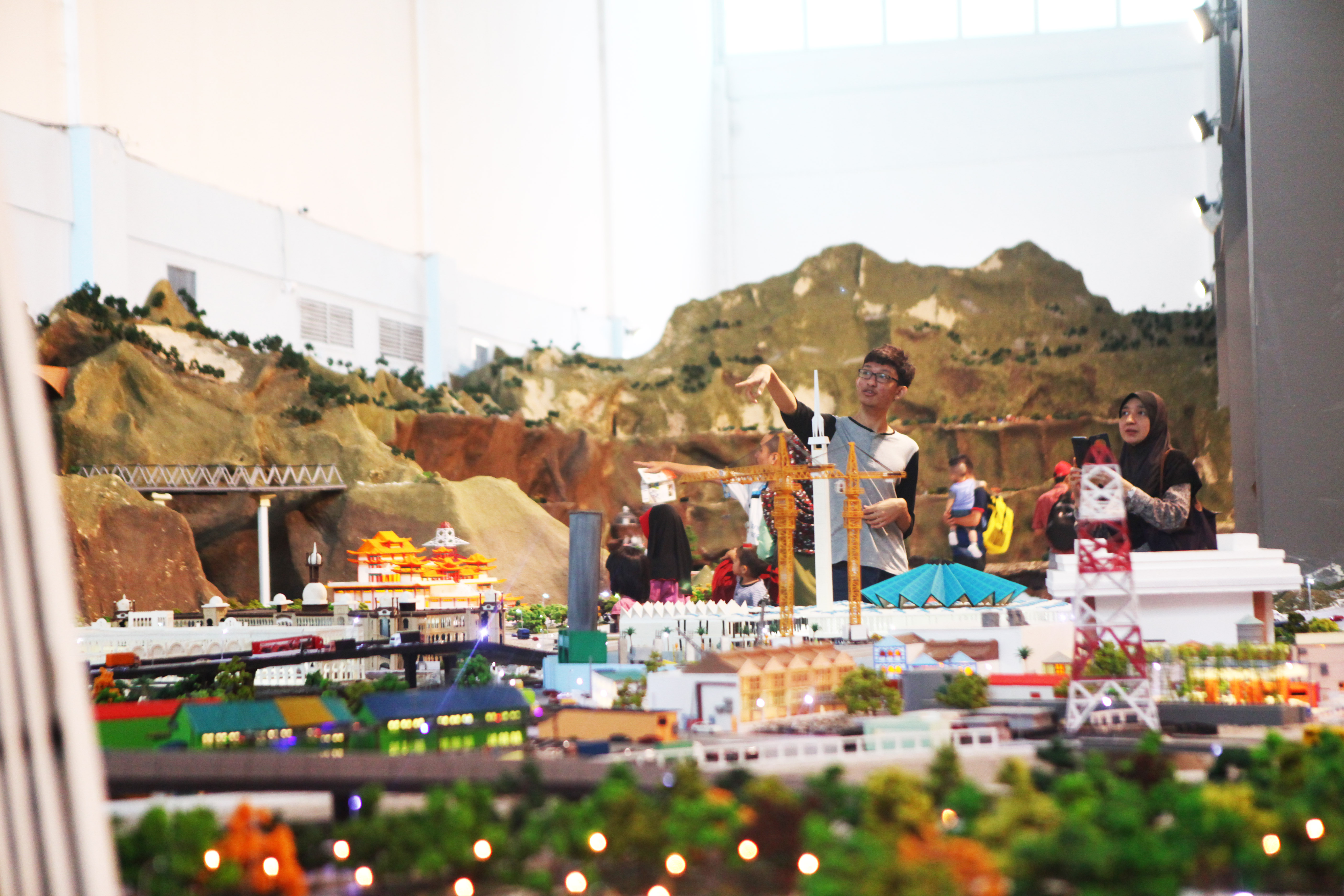 Family viewing MinNature exhibits upclose.